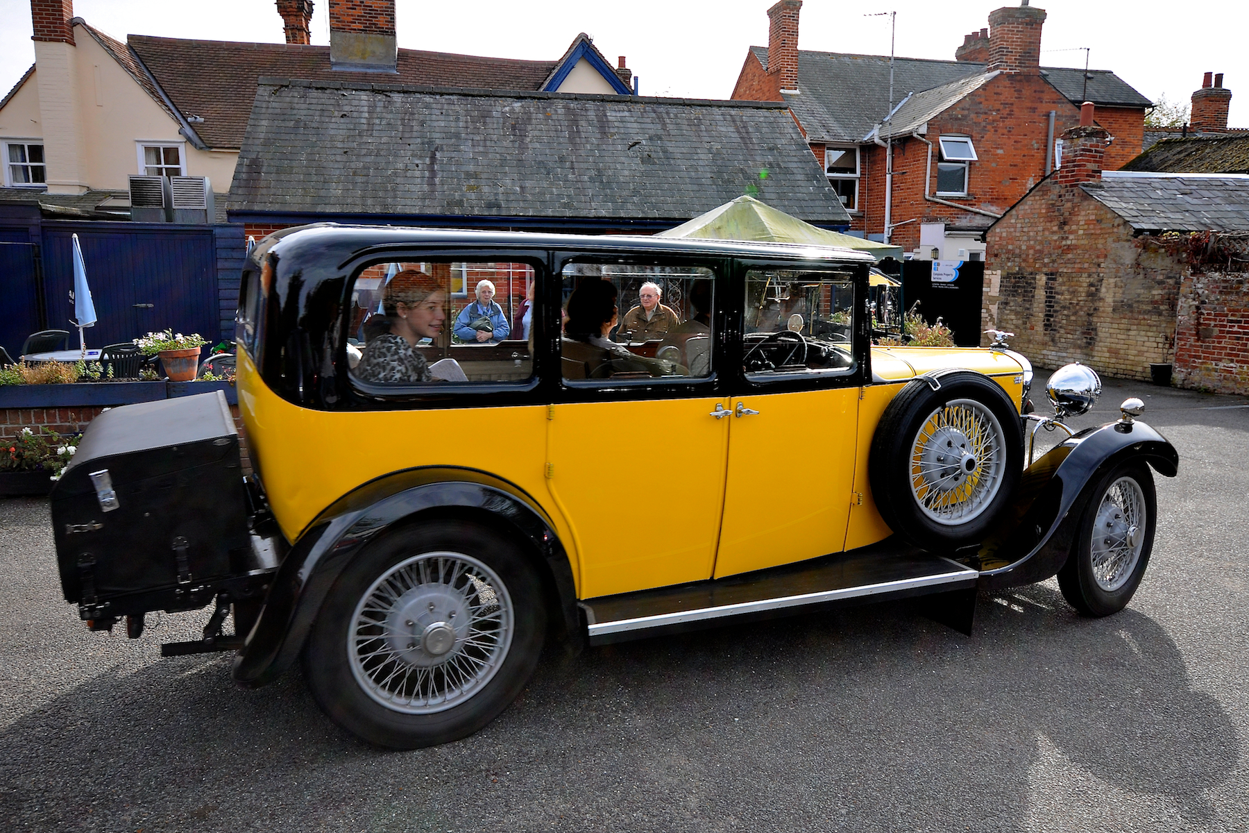 1932 Sunbeam saloon (DVLA) made 1932, 2000 cc Classic Car Rally at Chedburgh